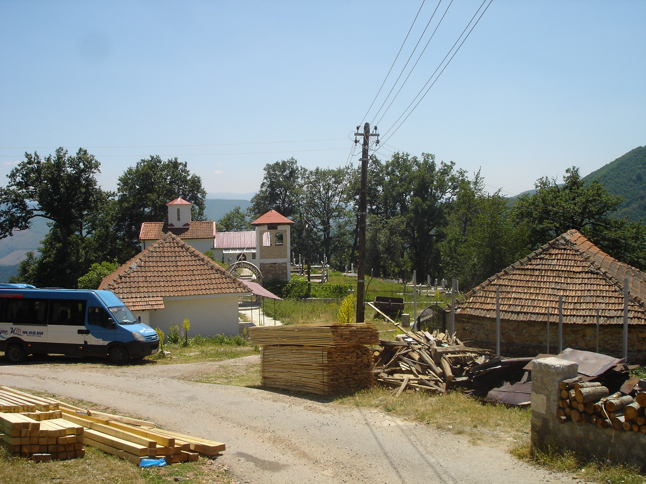 village of Crvena Voda in Debrca municipality, Macedonia